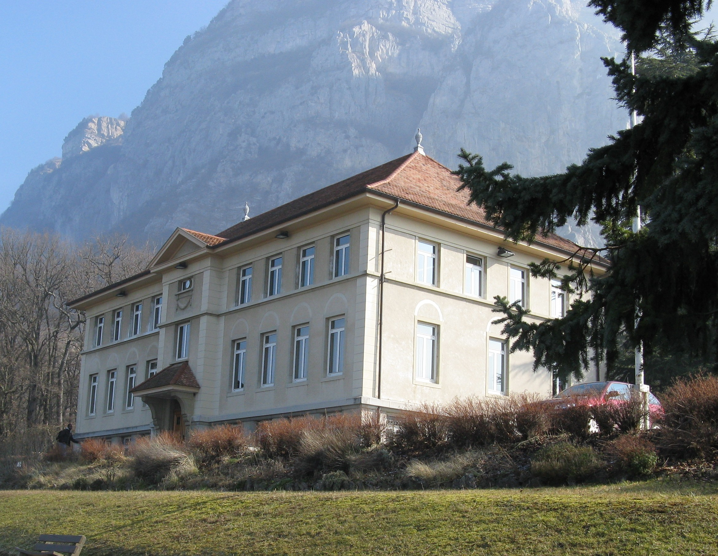 Photo of the Saleve Adventist University building. Saleve Adventist University was founded in 1921.